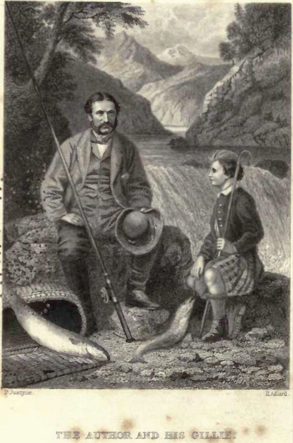 Frontpiece-Francis Francis and his Ghille - A Book on Angling, Francis Francis, 1876